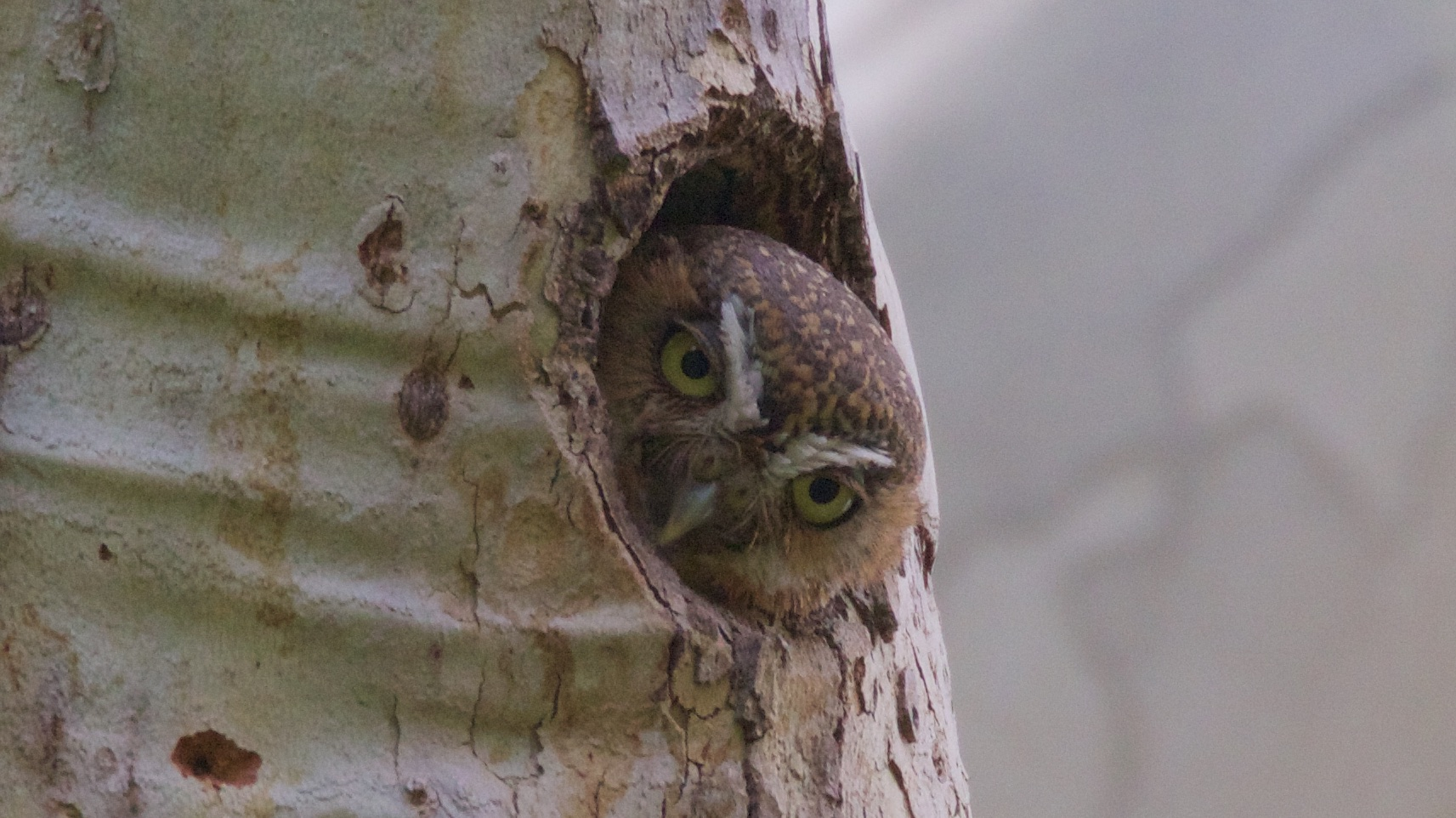 Elf Owl | Owl Prowl | Portal | AZ | 2016-06-08at09-21-5817